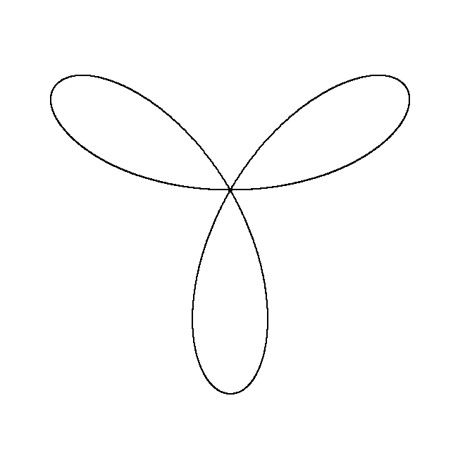 3 Petal rose curve.